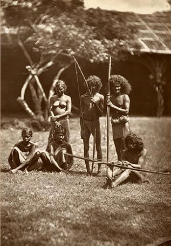 A family of indigenous Vedda people from Sri Lanka